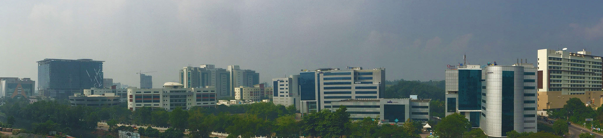 Distant view of Infopark Phase I, Kochi